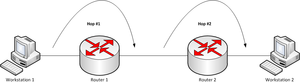 hop-count explanation